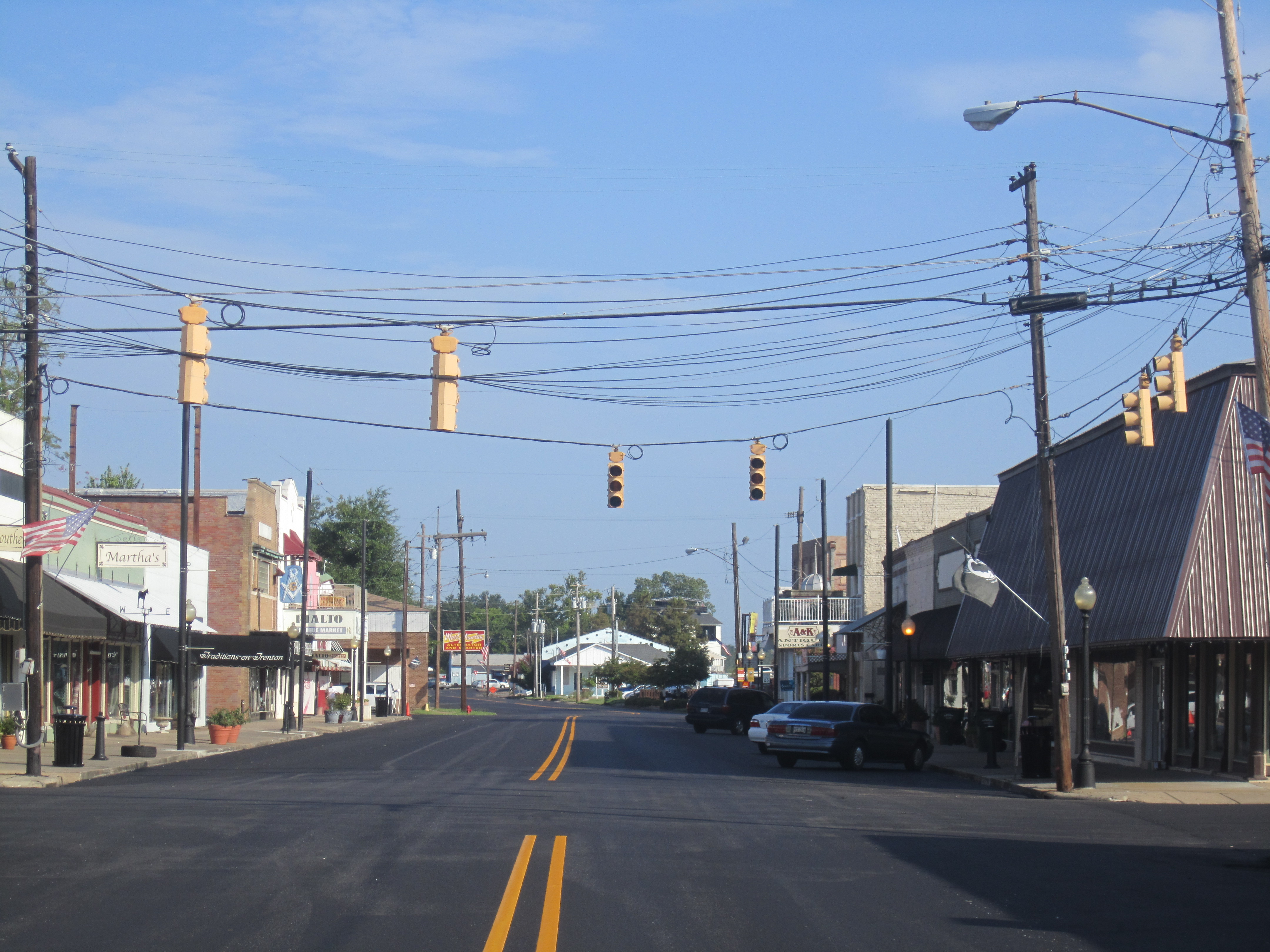 I took photo with Canon camera in West Monroe, LA.